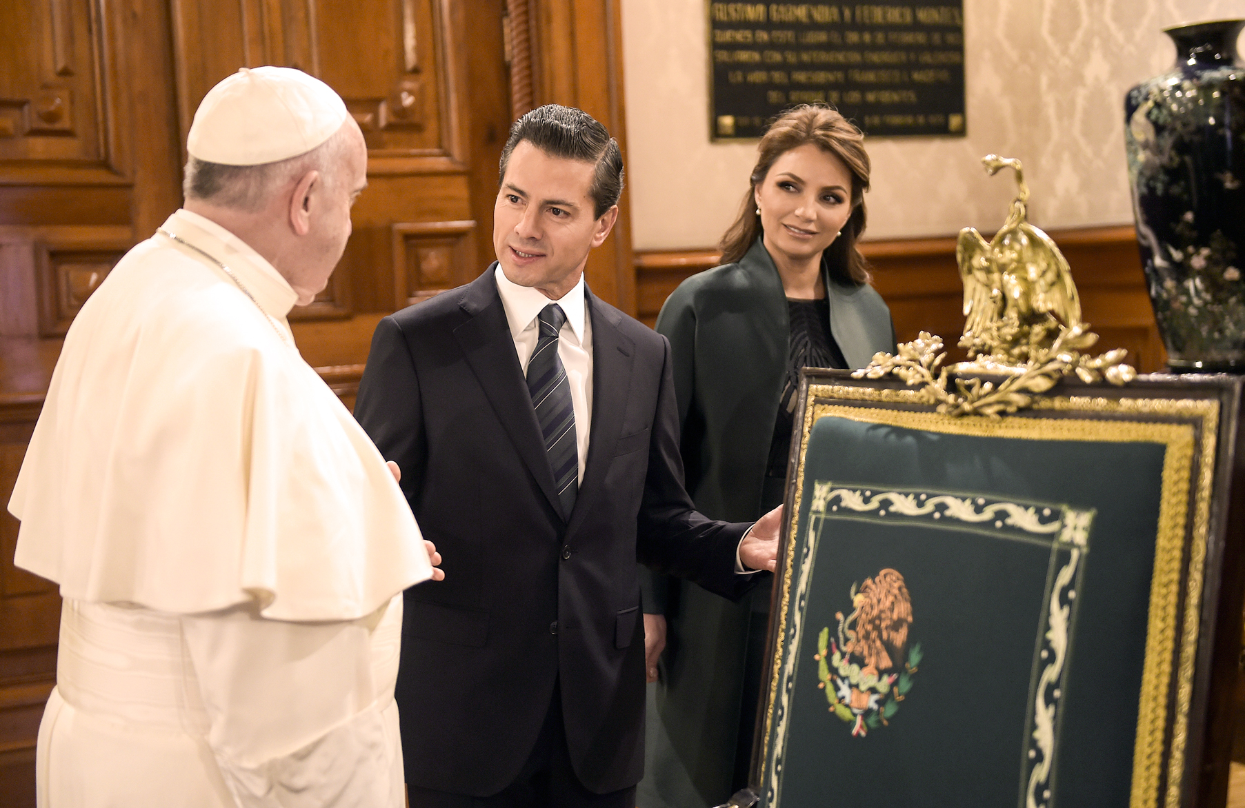 Reconocemos en el Papa Francisco a un líder sensible y visionario, que está acercando una institución milenaria, a las nuevas generaciones. 13 de Febrero del 2016